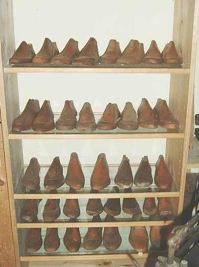 various wooden lasts of a shoemaker (~ 1930)